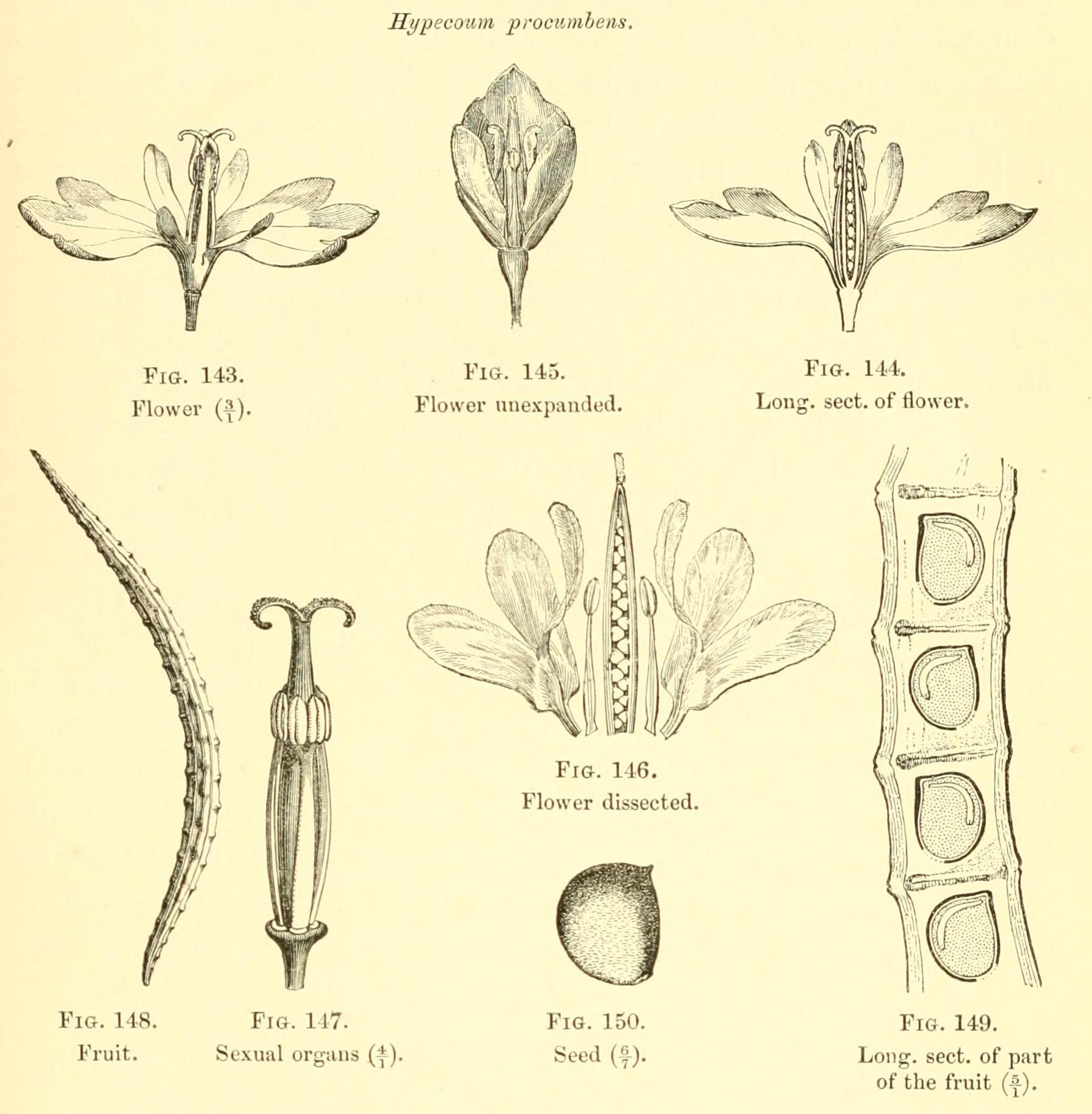 Illustration of Hypecoum procumbens from H. Baillon [translated by M. Hartog] The natural history of plants. - Vol. 3. - London, 1871.